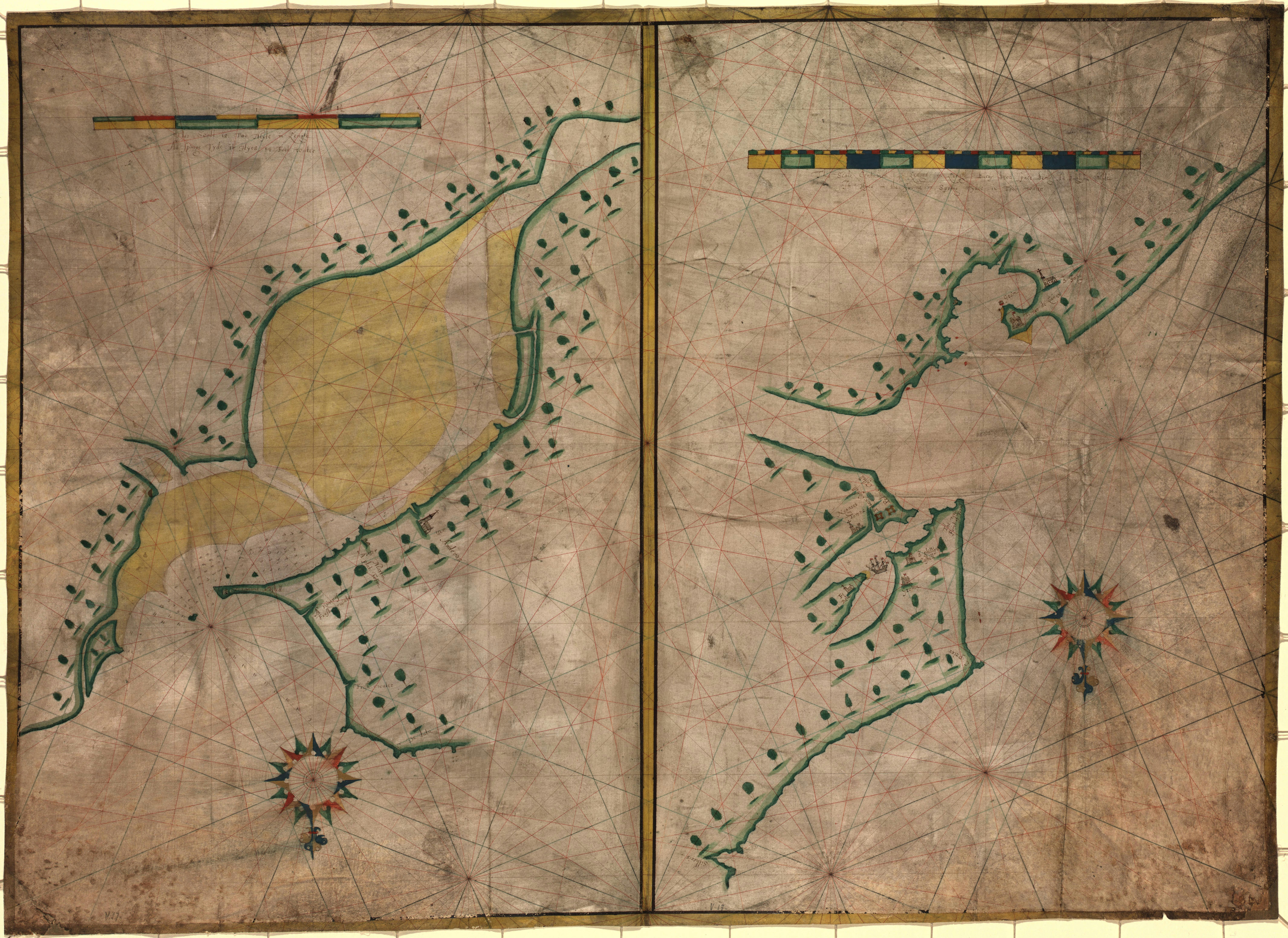 Manuscript map of Santander and La Coruña, c. 1589, at the time of the Drake-Norris expedition. NOTES Pen and water colors on vellum. Both maps oriented with north to the bottom. Reference: Kraus, H.P. Sir Francis Drake, 50a Gift of Hans P. and Hanni Kraus. Scale [1:18,100]. -- Scale [1:31,000].